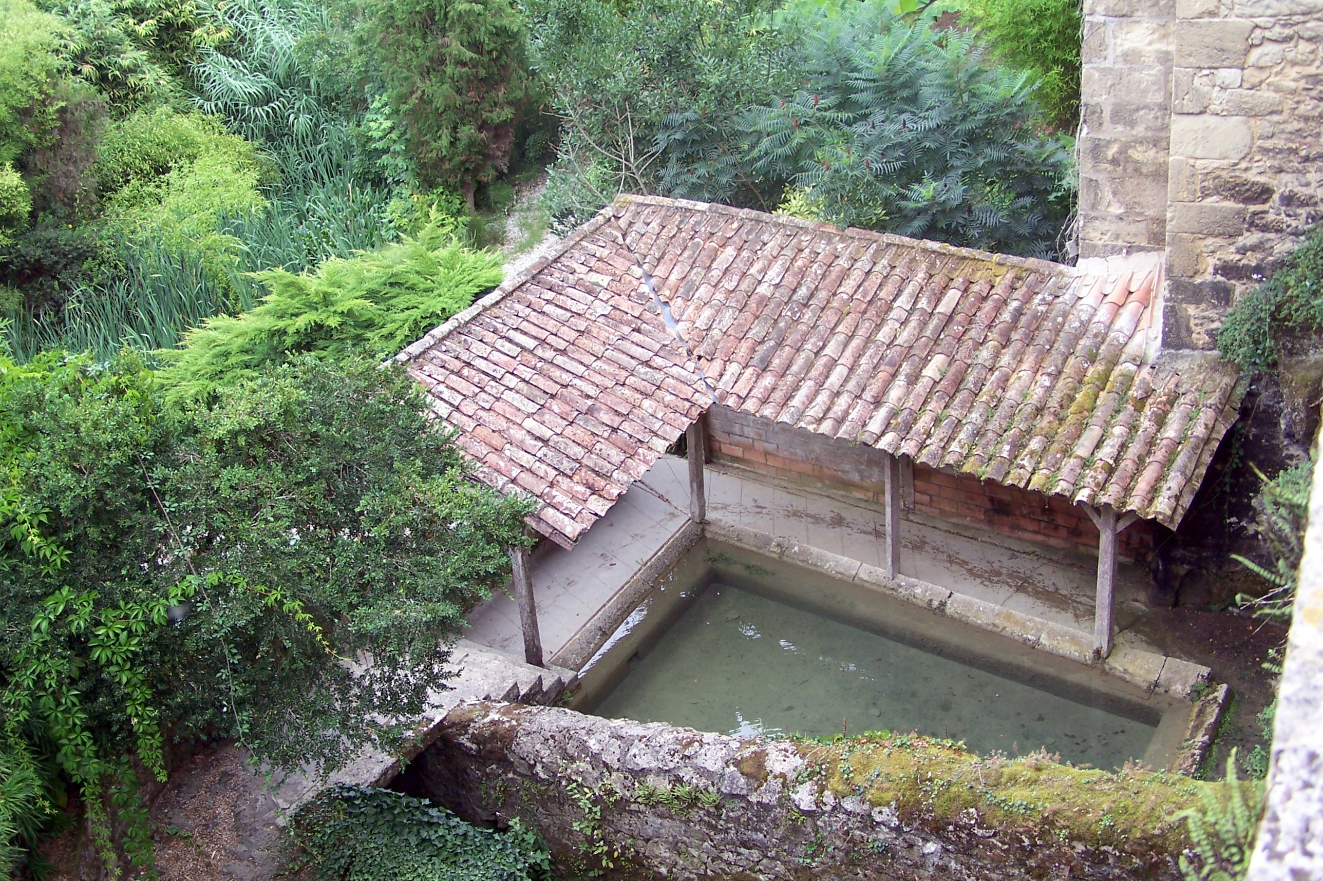 Wash house of Castelmoron-d'Albret (Gironde, France)